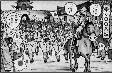 Japanese humorous postcard depicting the Japanese Army entering a Chinese town while being welcomed by the inhabitants